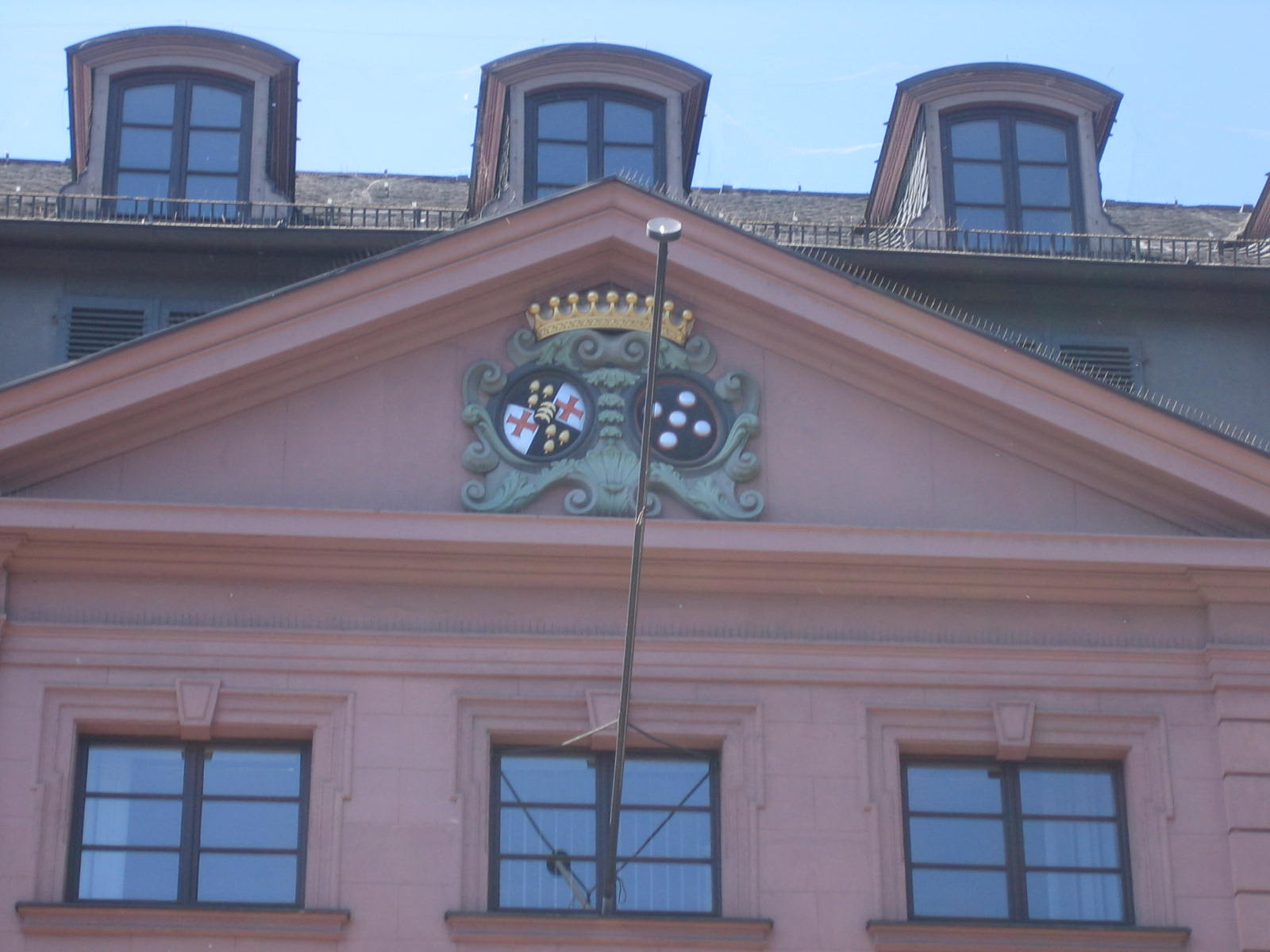 Hôtel Stadion, Mayence